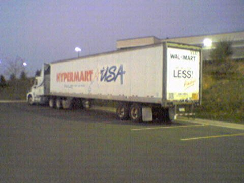 A Wal-Mart truck is parked in the lot of the Wal-Mart Supercenter in Waynesboro, Virginia on October 1, 2005. The trailer carries graphics for Wal-Mart's failed Hypermart USA concept.